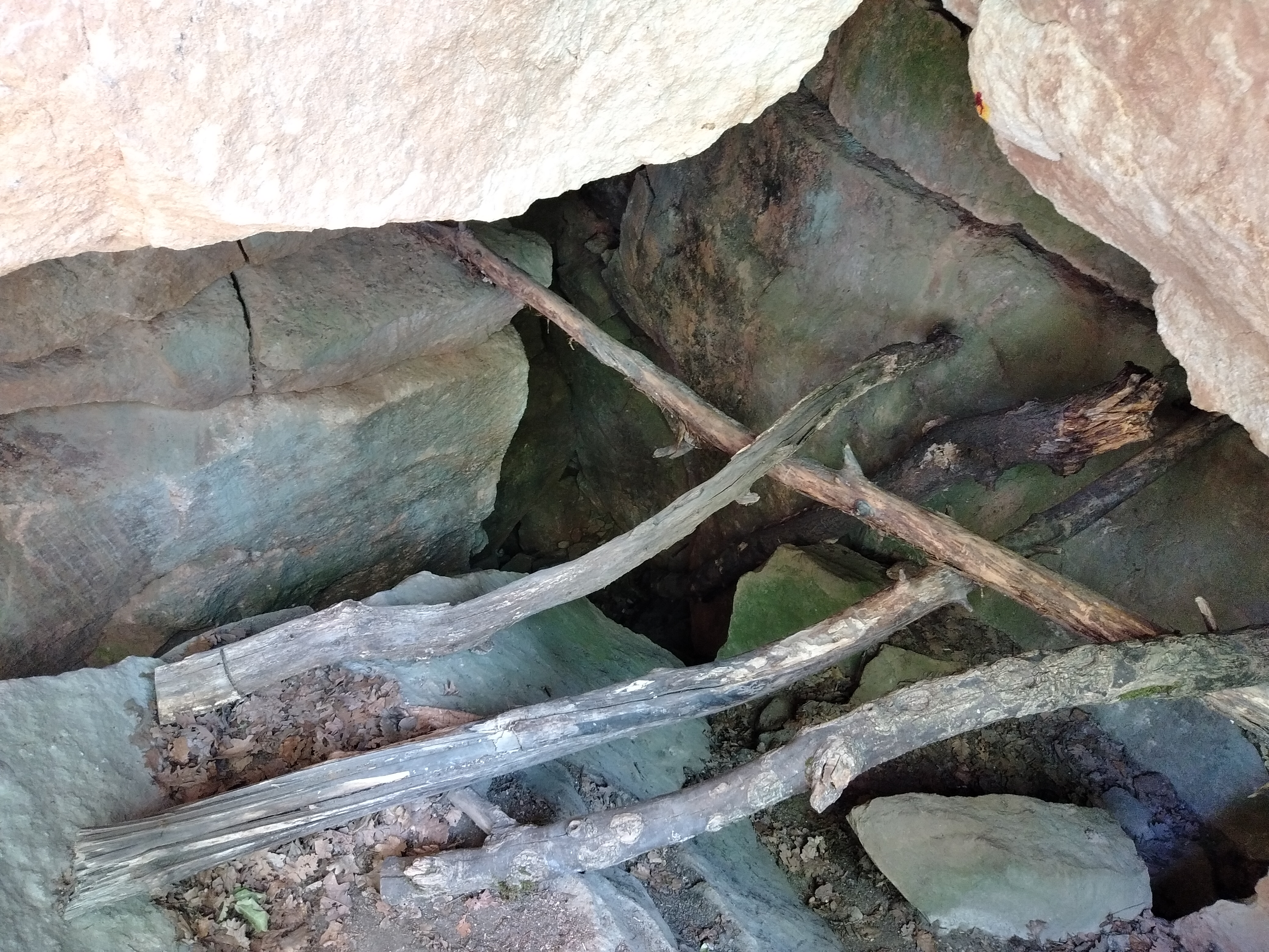 Entrance region of the Szophoklész Cave (Hungary, Pilisborosjenő)